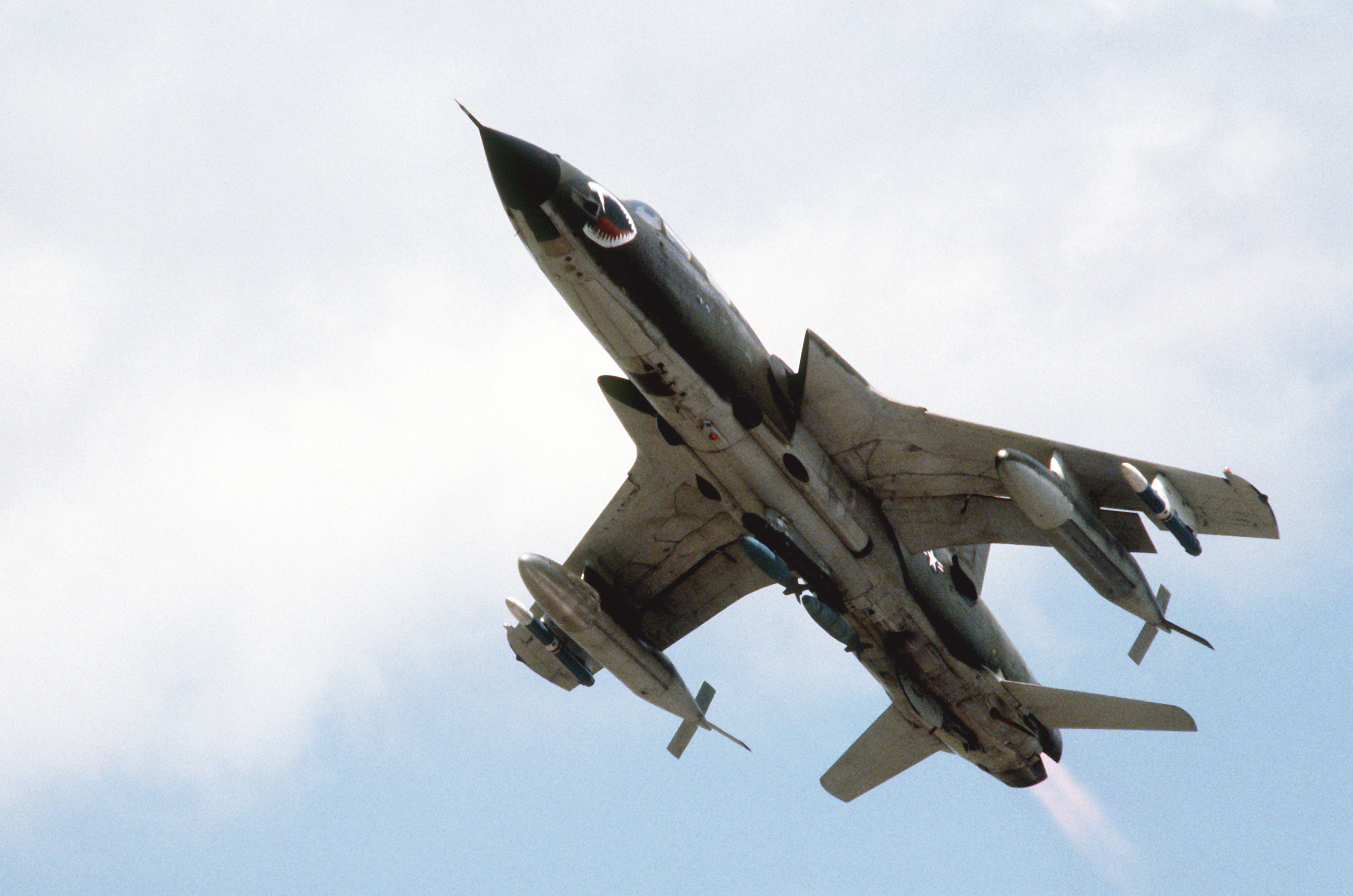 A U.S. Air National Guard Republic F-105G Thunderchief Wild Weasel aircraft, carrying two practice 227 kg (500 lb) Mark 82 bombs, in flight during exercise "Gangbuster XI" at Dobbins Air Force Base, Georgia (USA), on 10 April 1981. The aircraft was assigned to the 128th Tactical Fighter Squadron, 116th Tactical Fighter Wing, Georgia Air National Guard.